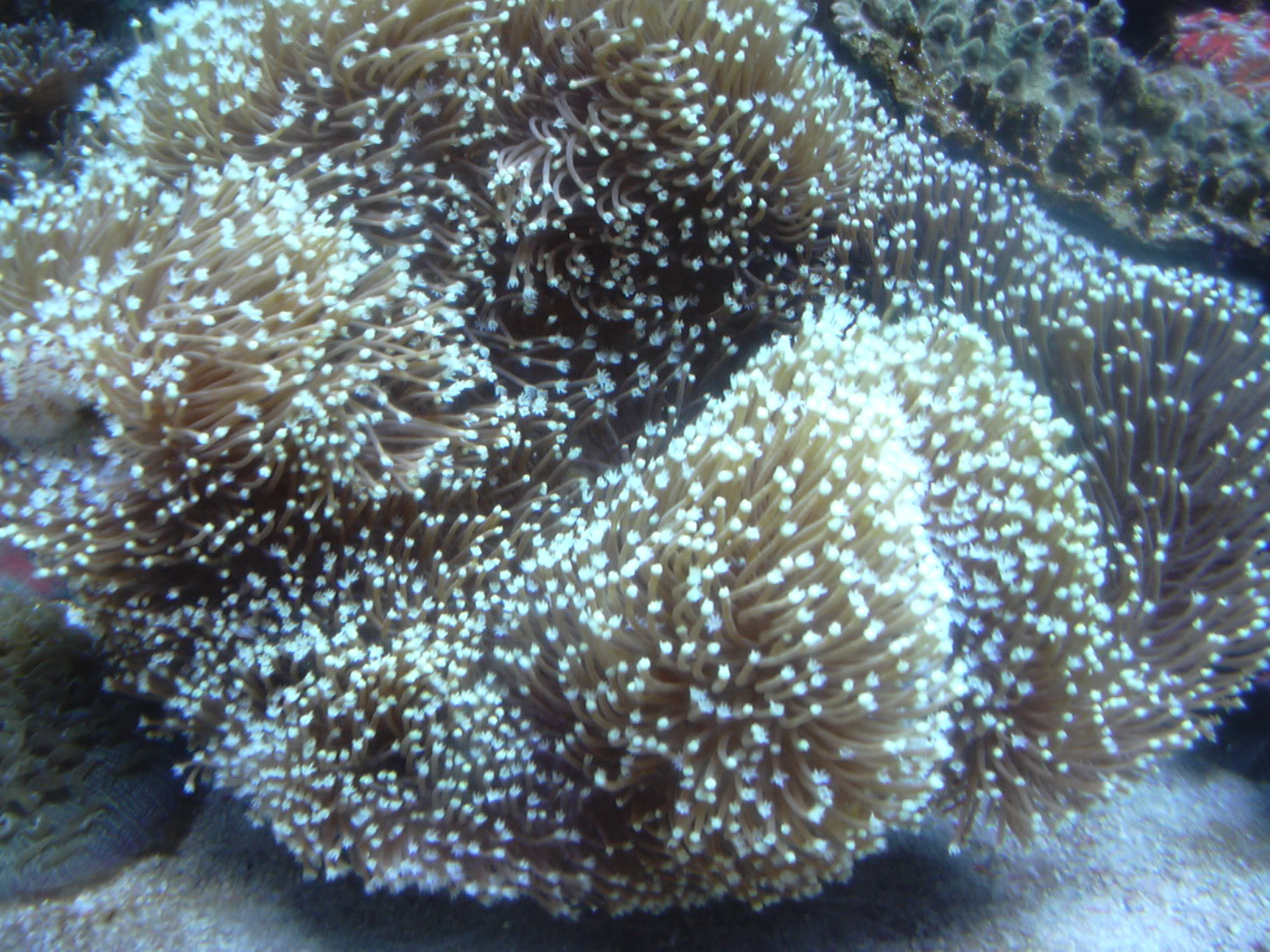 AQWA, Perth, sea anemones (tropical North Coast)